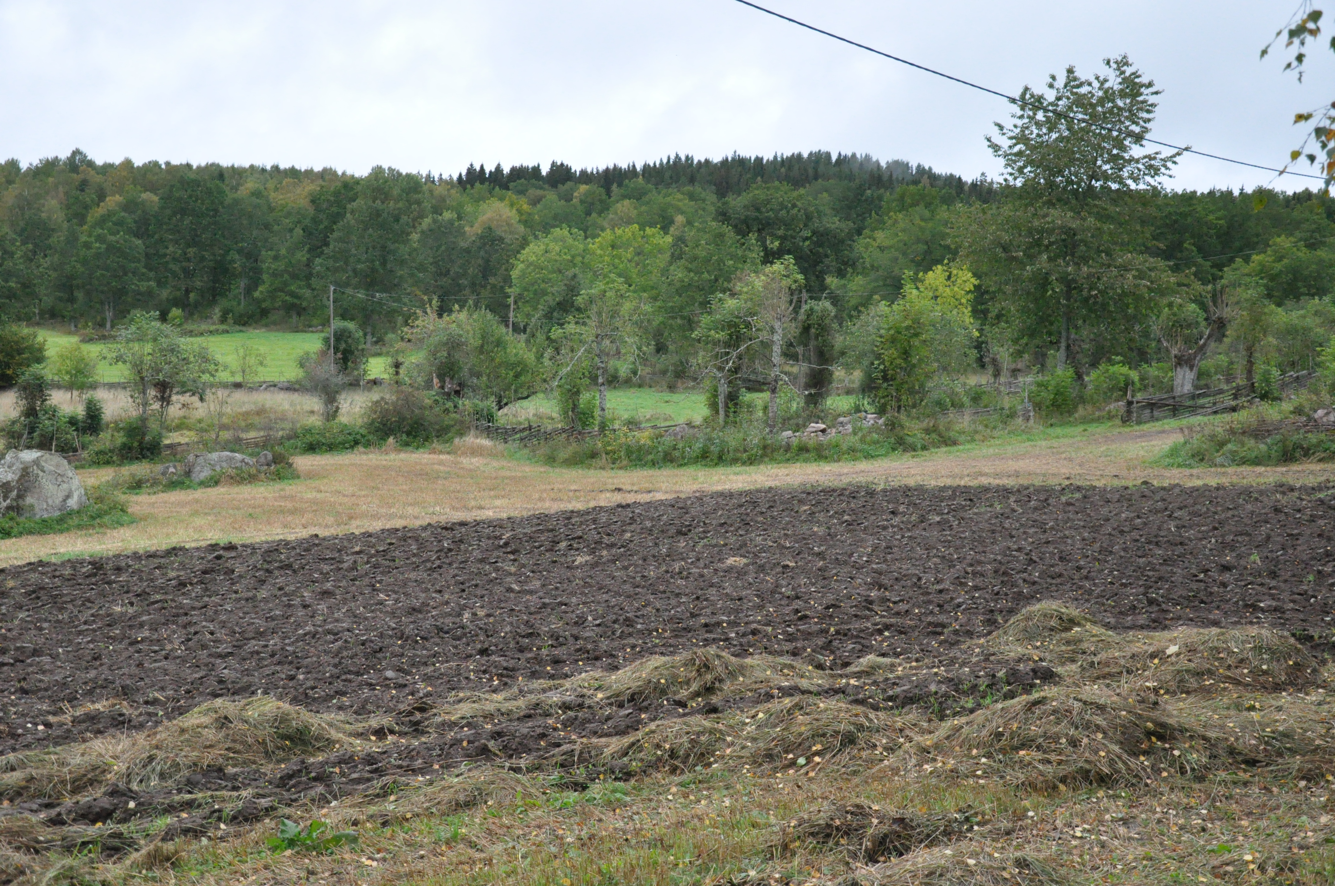 Smedstorps dubbelgård (Smedstorp Twin Farm), a Swedish Heritage Area (kulturreservat), Ydre, Östergötland